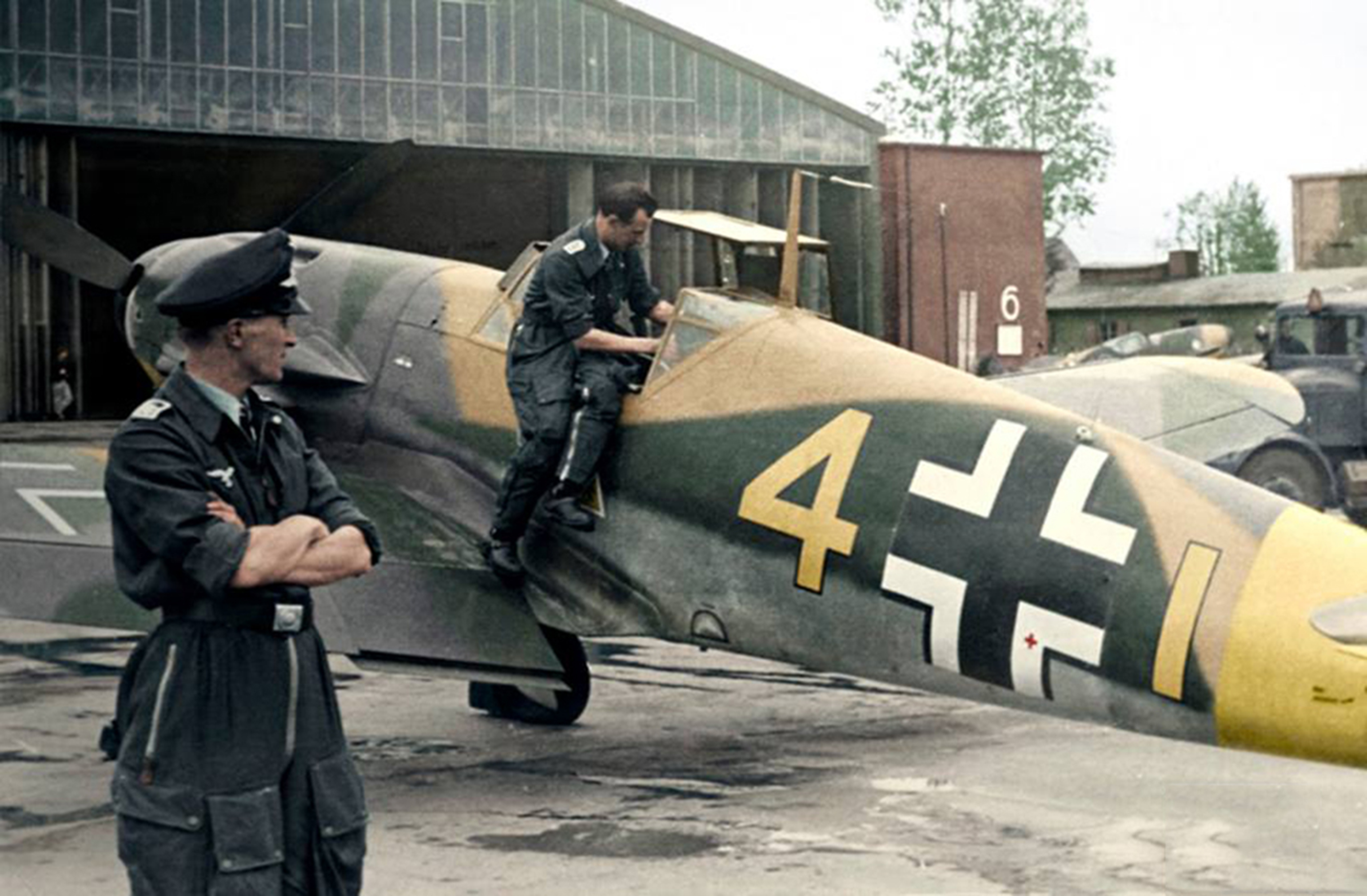 This is a retouched picture, which means that it has been digitally altered from its original version. Modifications: recolored by User:Ruffneck88. == Recolored Version of this image genutztes Programm Recolored v1.1. Description